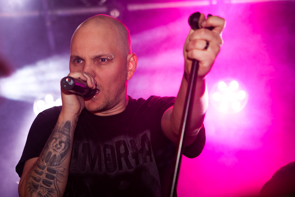 Tad Morose @ Dirty Harry, Gävle, Sweden 121110